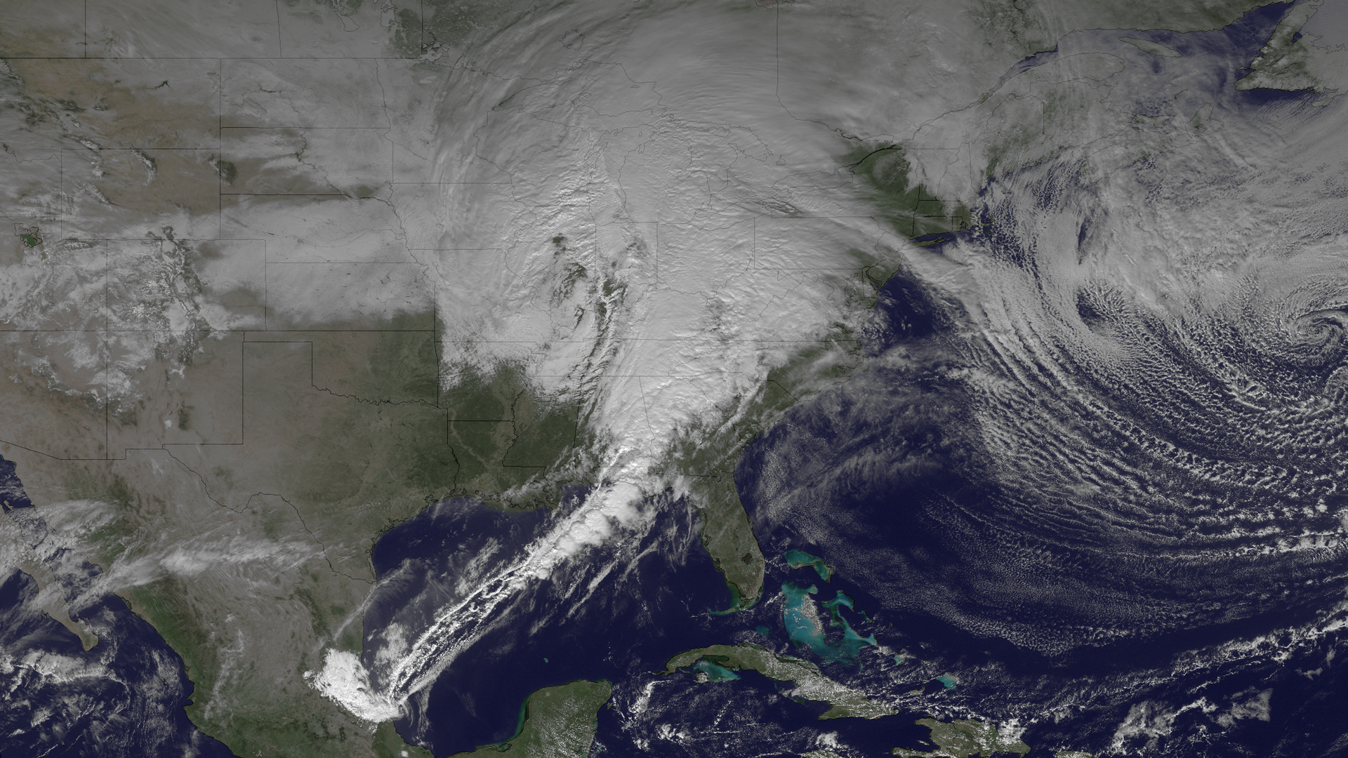 Winter Storm Draco affecting the Midwest of the United States on December 20, 2012.